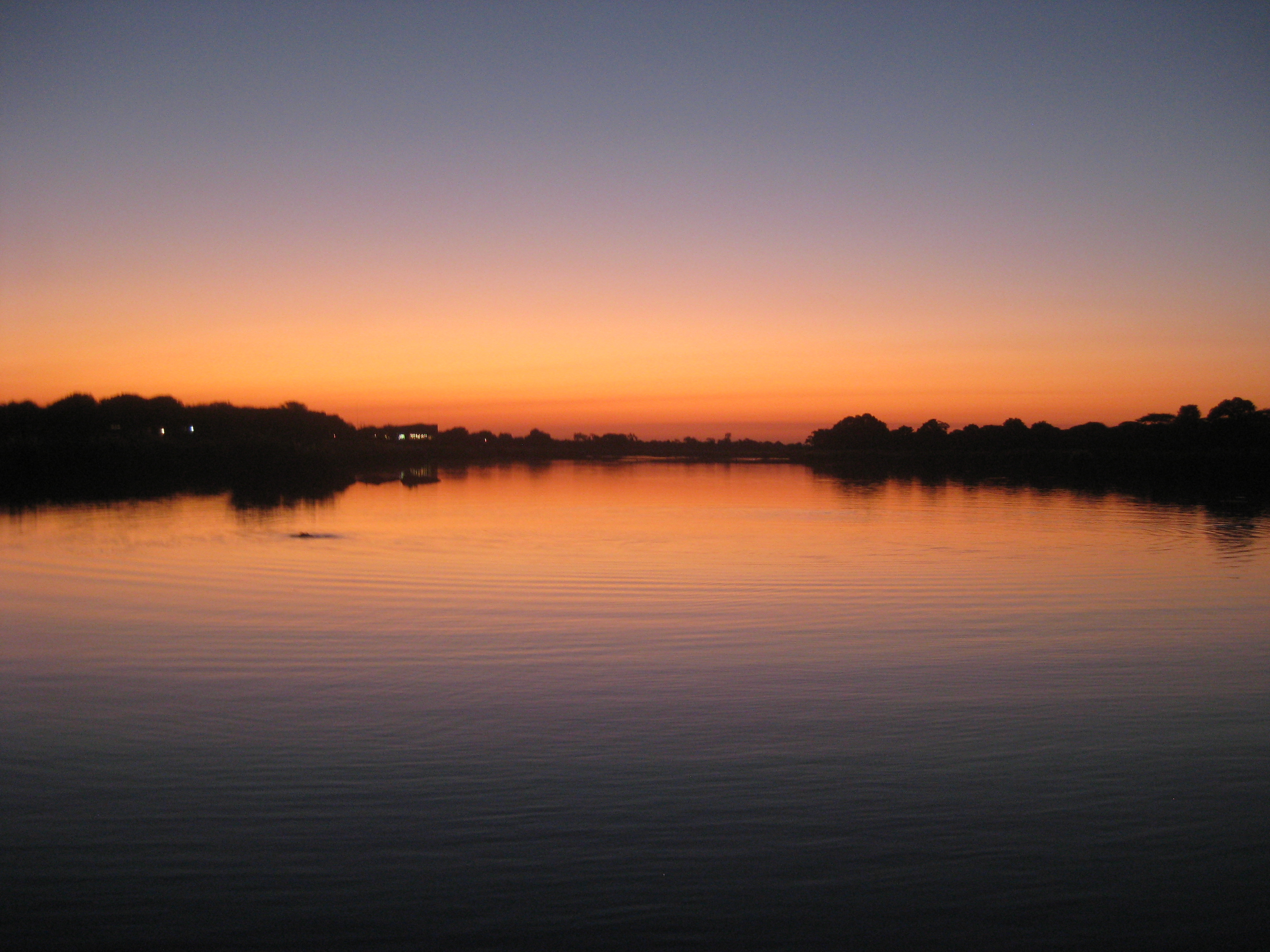 Dusk in Kruger National Park on water.